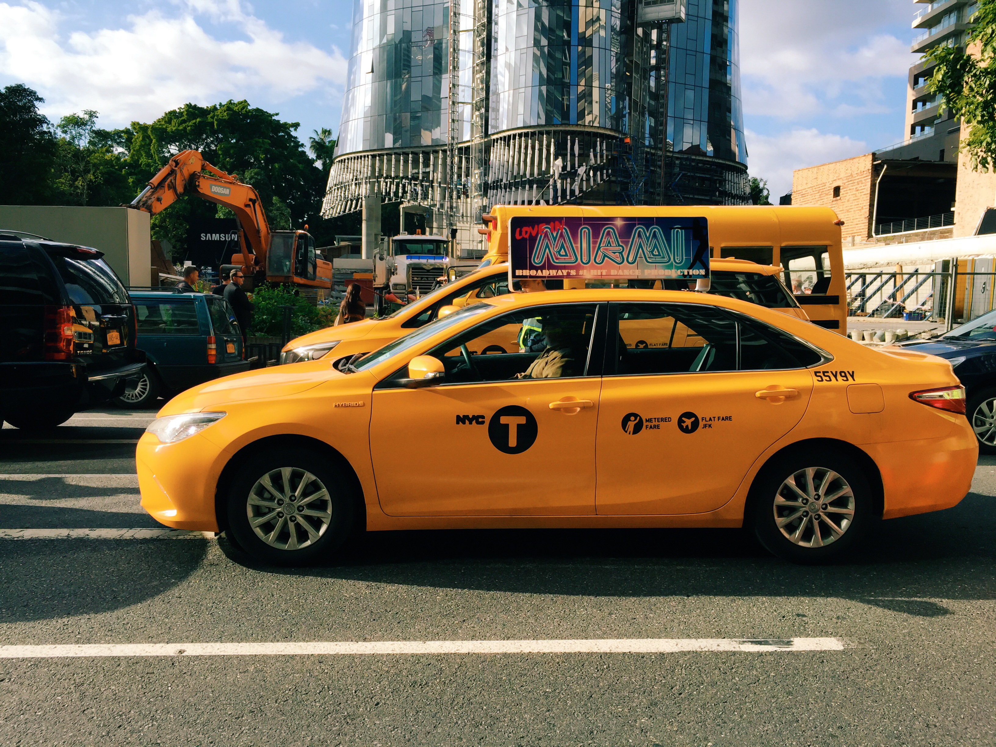 Parts of Brisbane's CBD being used as a film set for Thor: Ragnarok, starring Chris Hemsworth and Tom Hiddleston.